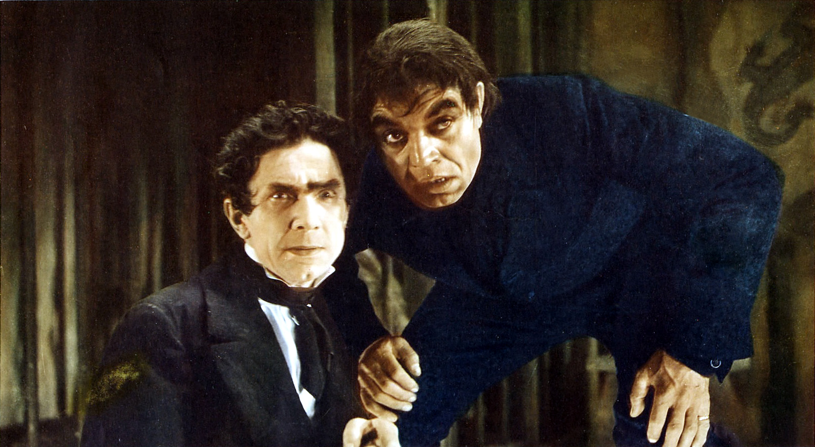 Cropped and edited version of this file, featuring Bela Lugosi in Murders in the Rue Morgue. This image is in the public domain, as no copyright notice was attached to the original